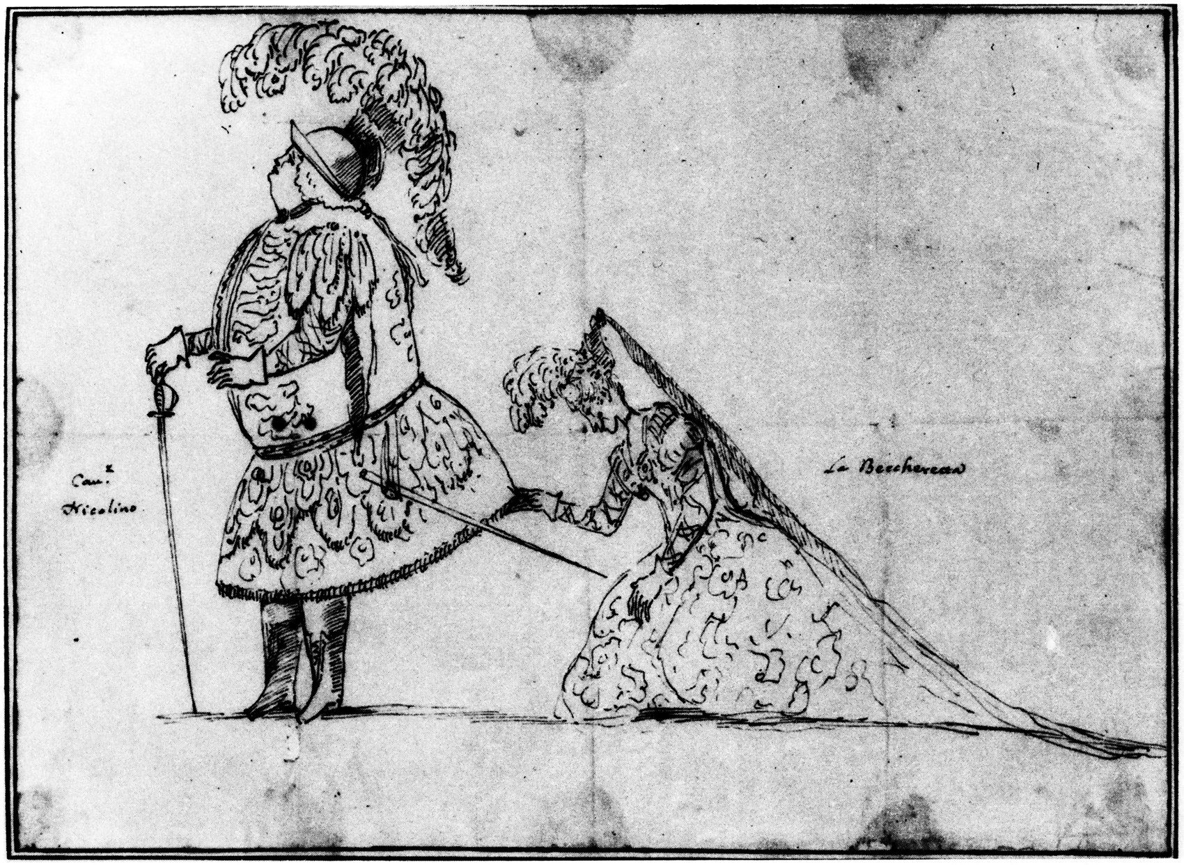 Castrato Nicolo Grimaldi (a.k.a. as Nicolino) together with soprano Lucia Facchinelli (a.k.a. «La Becheretta»), caricature by Zanetti